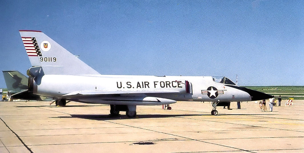 73d Air Division Air Defense Weapons Center Convair F-106A-130-CO Delta Dart 59-0119, showing new ADTAC emblem, Tyndall Air Force Base, Florida, 1979